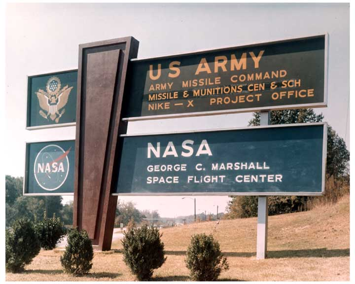 The sign at the main gate at the Redstone Arsenal